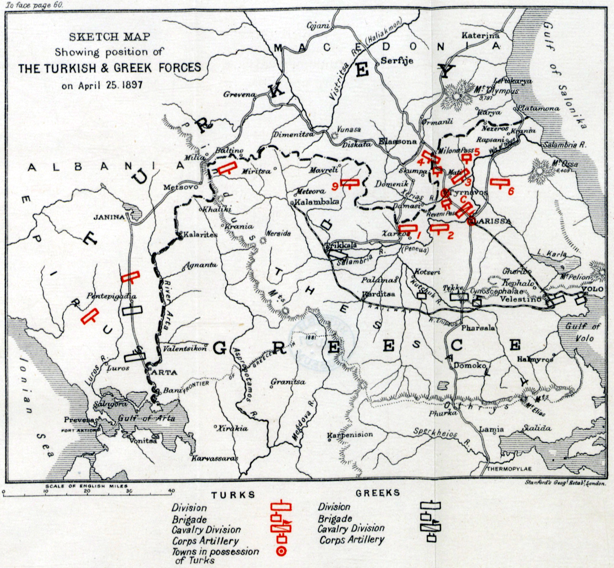 Disposition of the Turkish & Greek forces on April 25, 1897